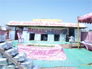 Pakistan's first center on waste mangement. It has conducted research in Prefabricated Housing, Recycling, Water Purification and other areas of Waste Management